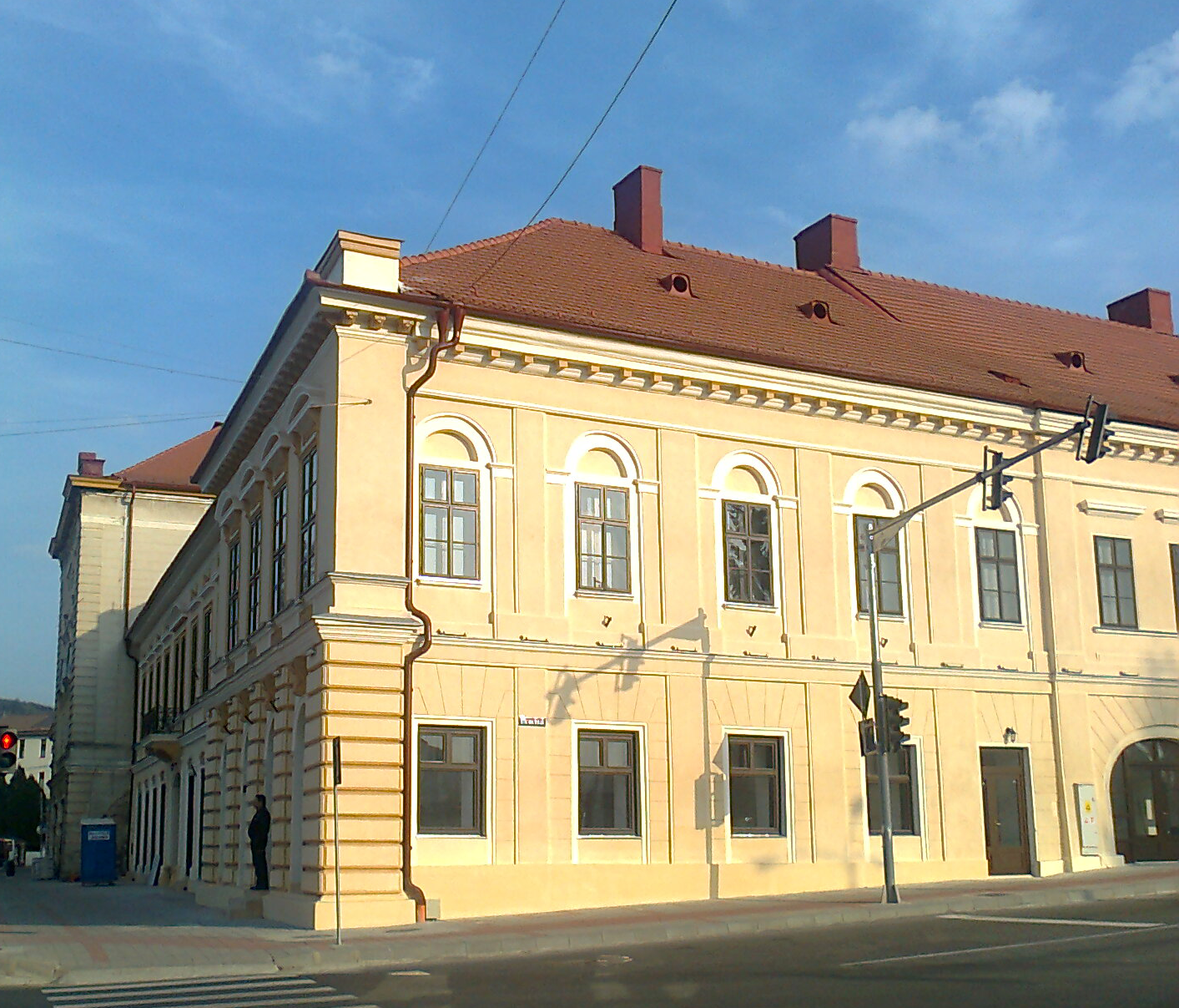 Building Vigadó (today Transilvania) in Zilah (today Zalau, Romania) built between 1895-1899